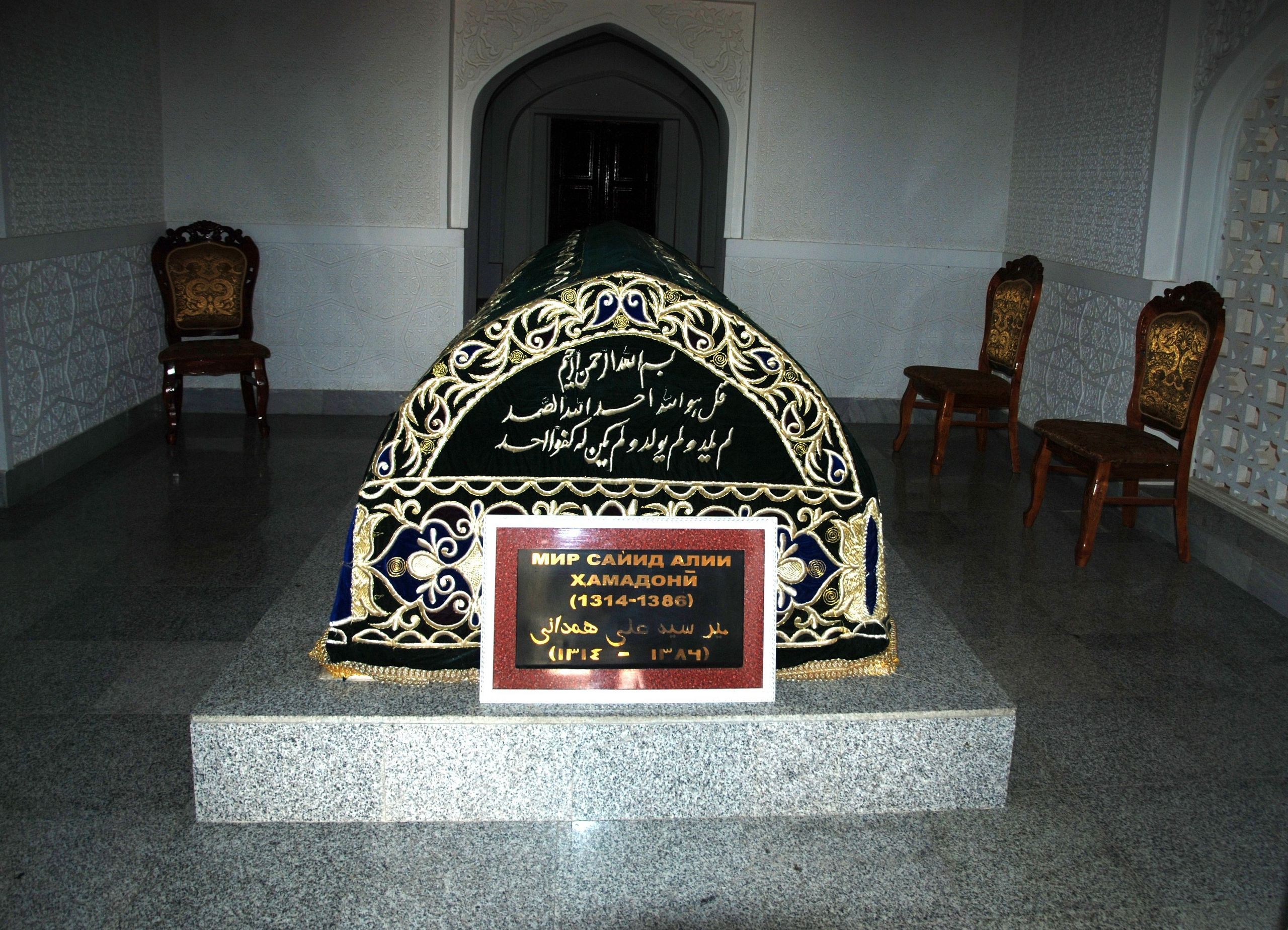 Kulob, mausoleum of Sayyid Ali Hamadani